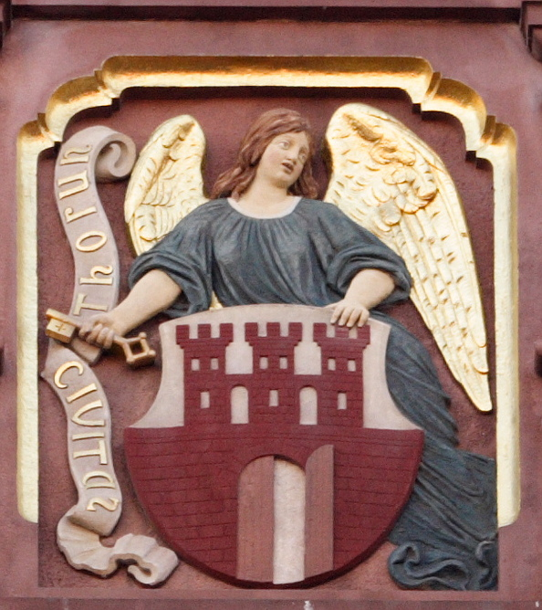 Coat of arms of Toruń on the facade of Artus Court in Toruń (1891)